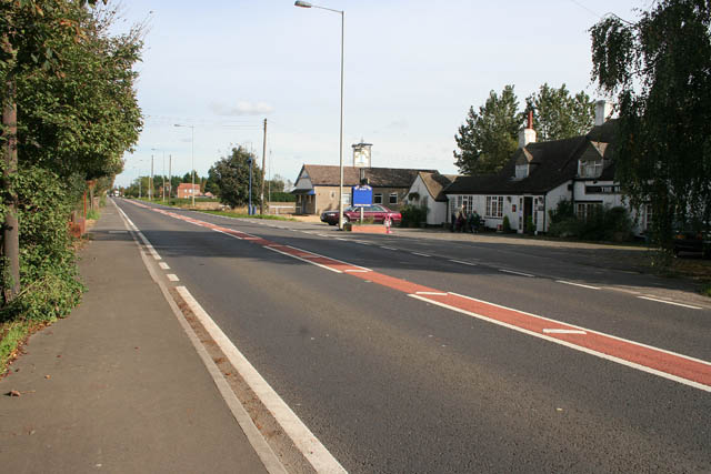 Littleworth Drove, Hop Pole. This is the busy A16 that is the only street through the village of Hop Pole. The pub on the right is the Blue Bell Inn and the building just beyond is the Village Hall, both of which are just in the featured square.